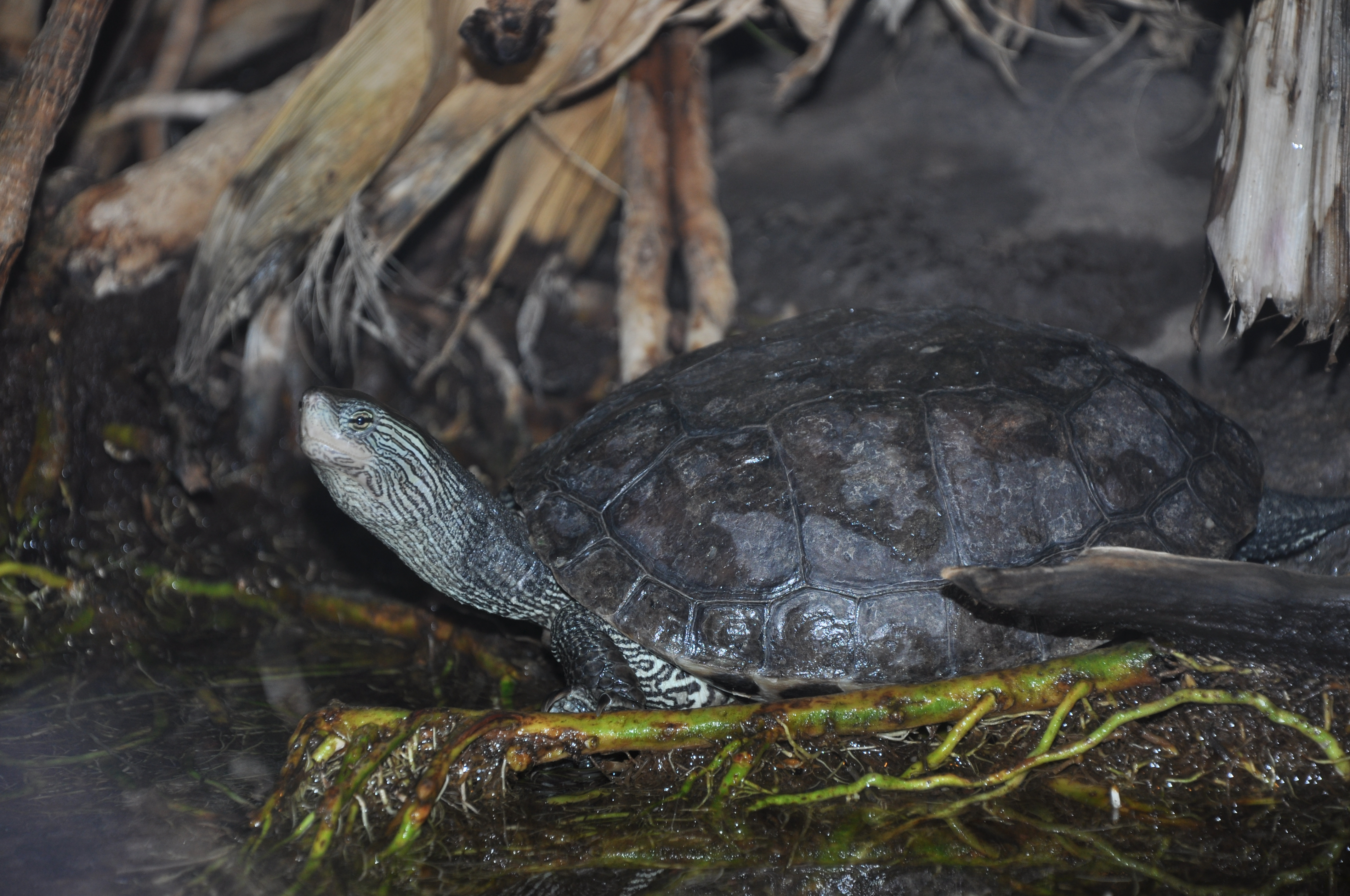 Chinese Stripe-necked Turtle